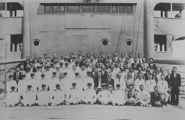 snapshot of the HIJMS Kashino